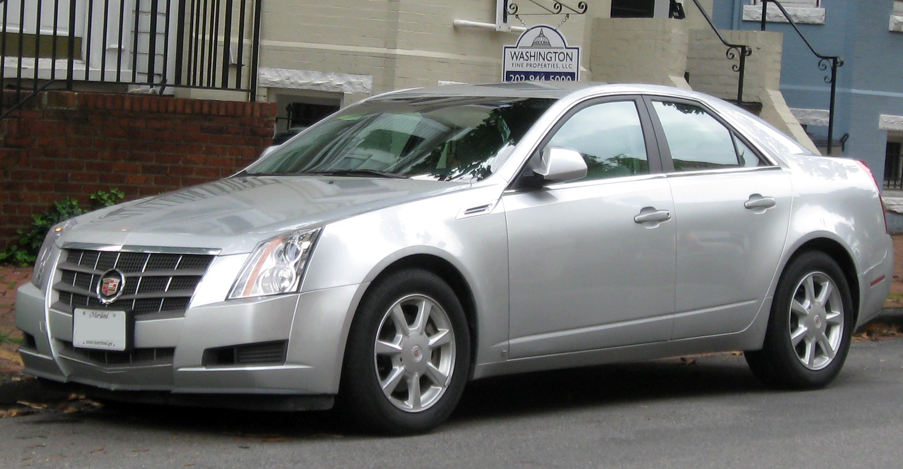 2008-2009 Cadillac CTS photographed in Washington, D.C., USA.